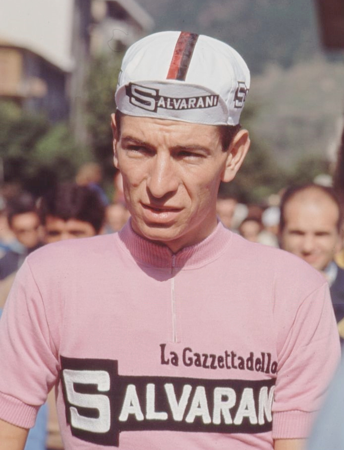 The Italian cyclist Felice Gimondi posing at the start of the 22nd stage of the Giro d'Italia Tirano-Milan. Tirano, 11th June 1967